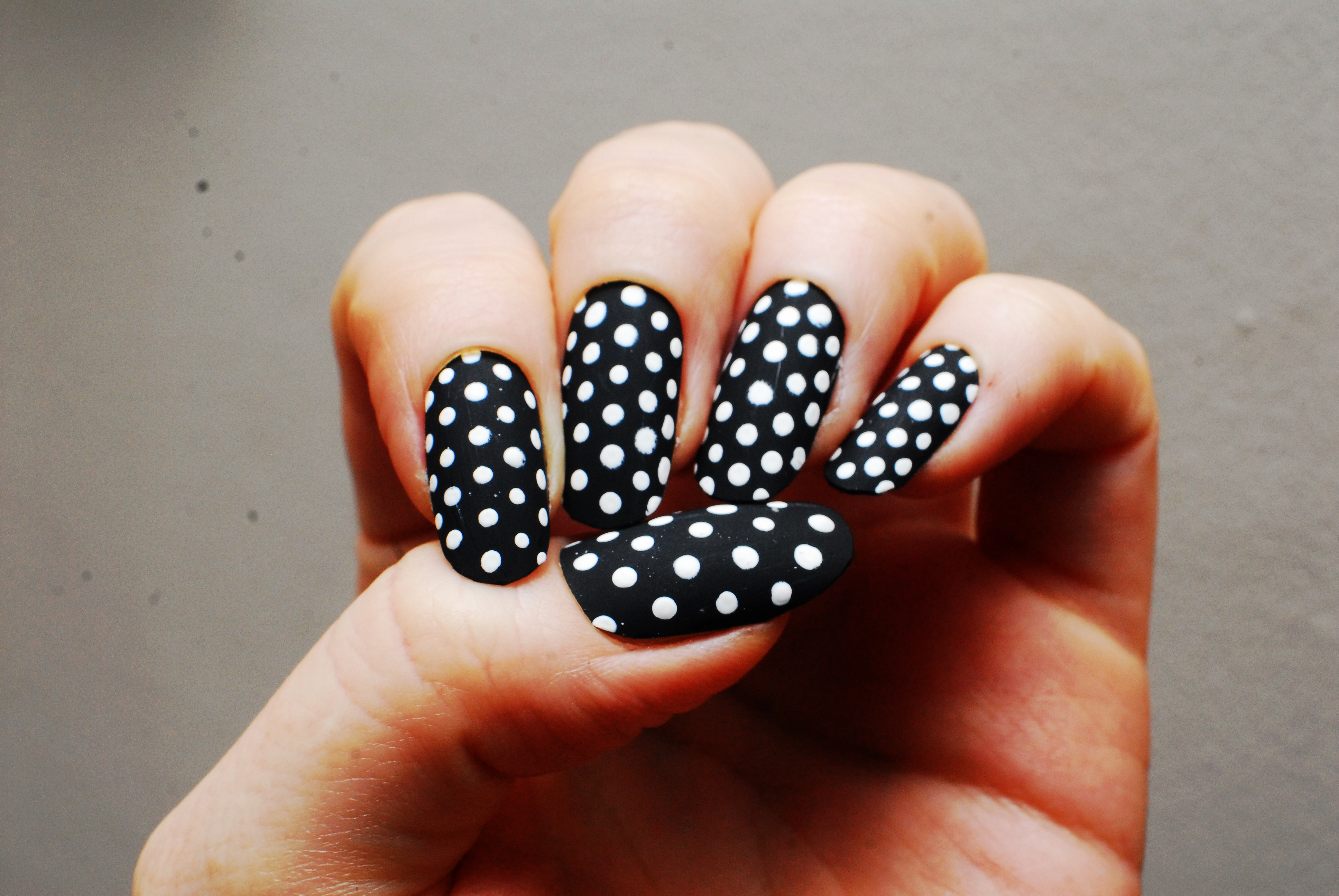 Black acrylic nails Household problem solving primer Opi matte top coat So this was interesting. I wanted to put on black acrylic nails with white dots, but I don't own a white that's strong enough, they all lack the pigment required to make it pop. I decided to improvise by digging out the pot of household 'problem solver' primer and holy cow! It worked! I got them all shaped and cut back to how I wanted them first and then, after sticking them to upside down sellotape, same as with the other dotted nails, I used the head of a dressmaking pin and dipped it just slightly into the paint before transferring it to the nail. I left them on the heater to dry for an hour, just to be sure, then covered them with a single coat of Opi Matte. After affixing them to my own nails (which I prepped with eveline 8-in-1 (applied first, one coat) and opi nail envy (over the eveline, one coat)), I covered them with another top coat of Opi Matte. It's a lot of faffing for a set of nails but I do find it helps keep my fingers nimble, I can always do with the dexterity practice!